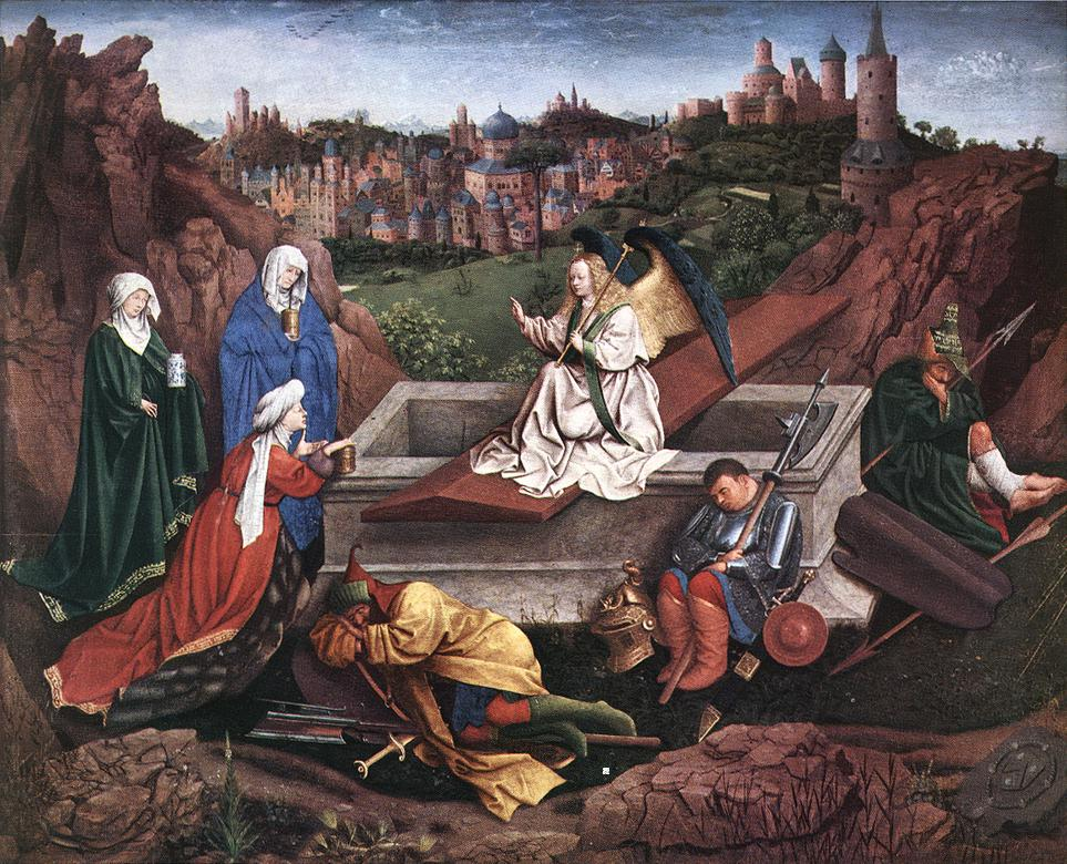 Fragment, possibly from an altarpiece to the Virgin Mary.